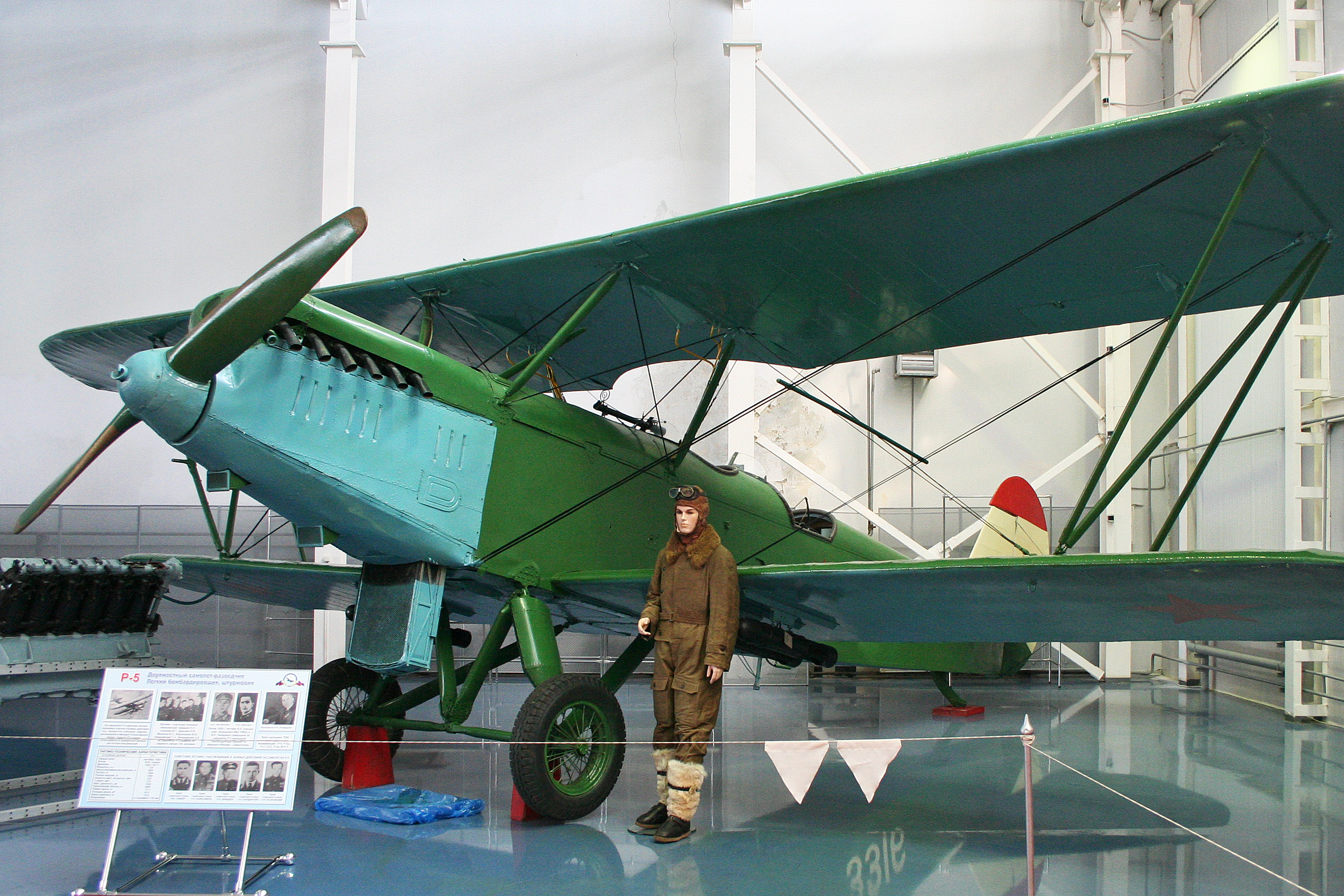 The R-5 was the standard Russian reconnaissance bomber of the 1930's. Some 5,000 were produced, serving between 1930 and 1944. This is possibly the only genuine complete example. It is on display in the new hangar near the museum entrance which houses many of the museums WW2 types. Russian Air Force Museum. Monino, Russia. 13-8-2012